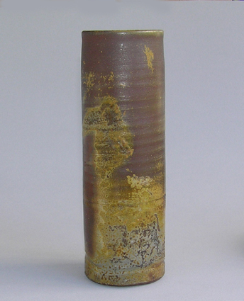 Bizen flower vase - hanaire